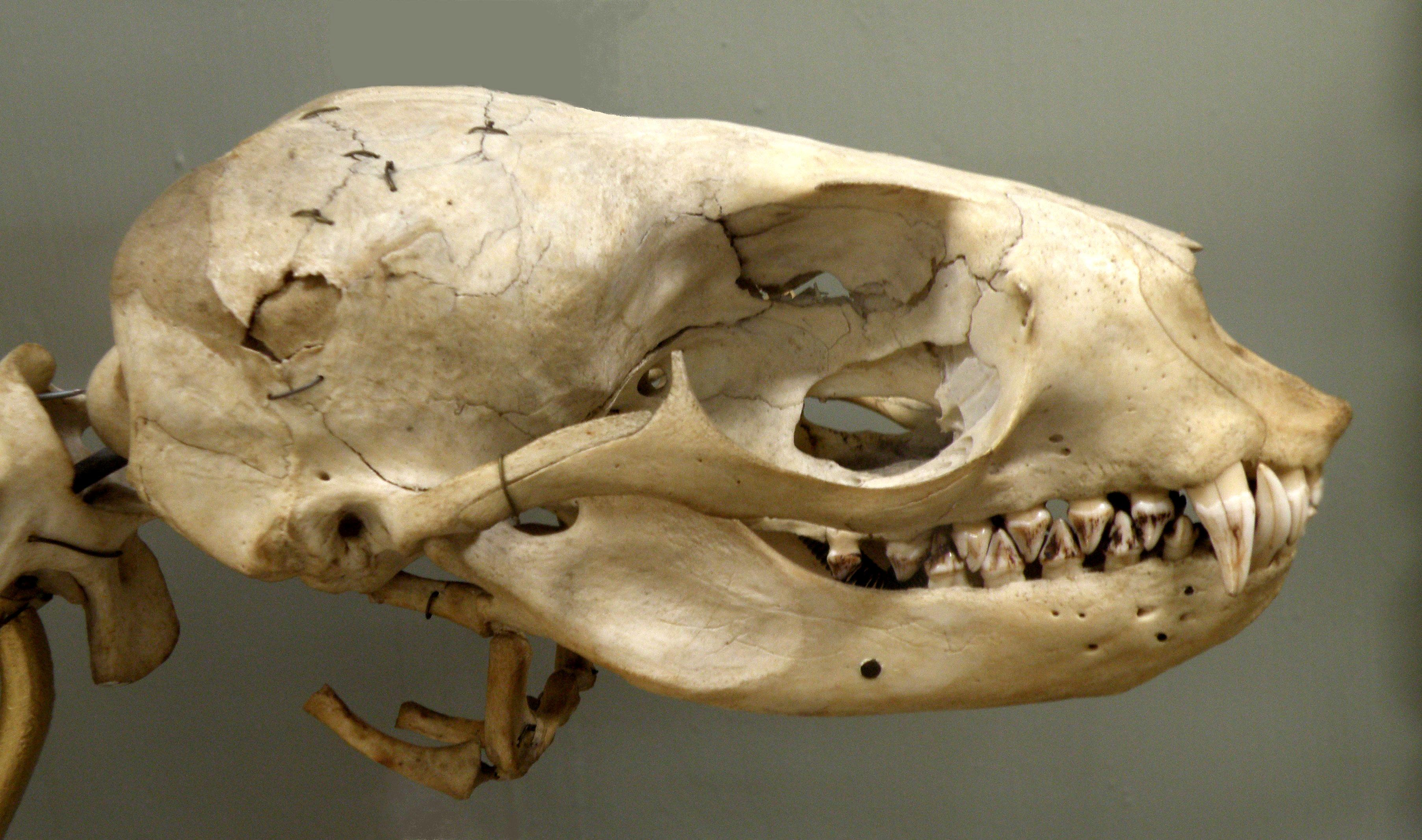 South American fur seal (Arctophoca australis australis = Arctocephalus australis) .